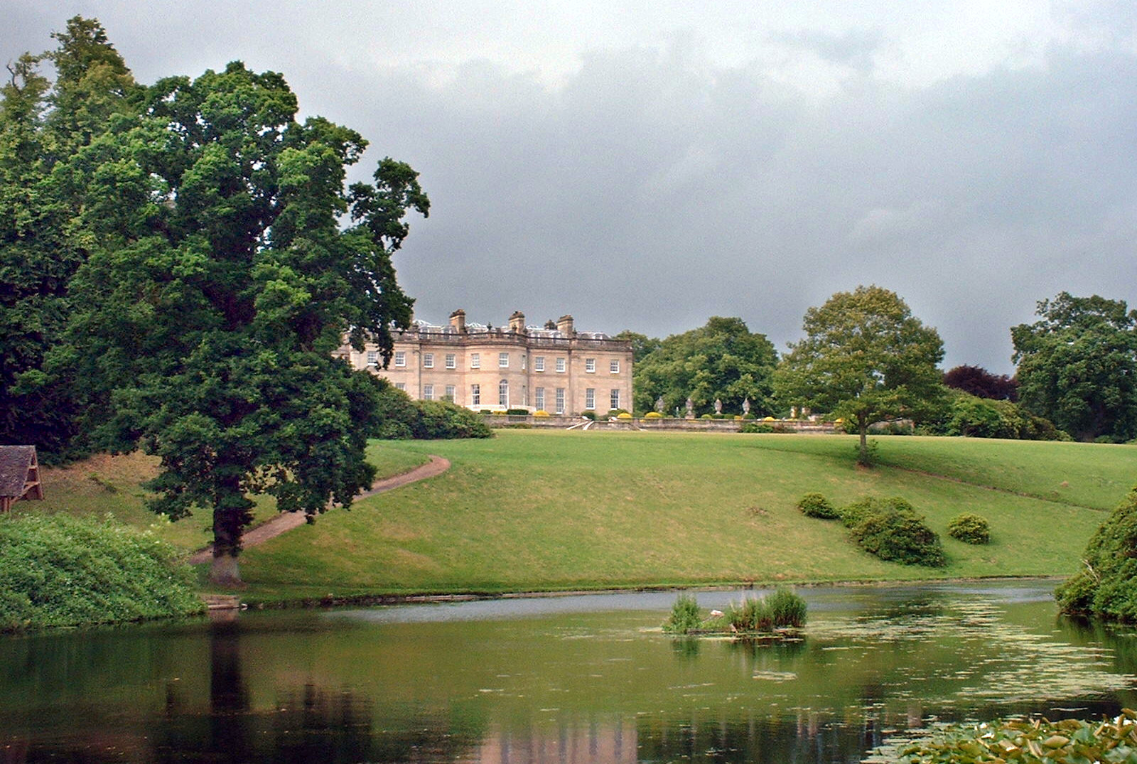 Manderston House veiwed across the lake taker summer 2005 by Geoff Piper Cleeve123 (talk) 09:57, 3 February 2008 (UTC)